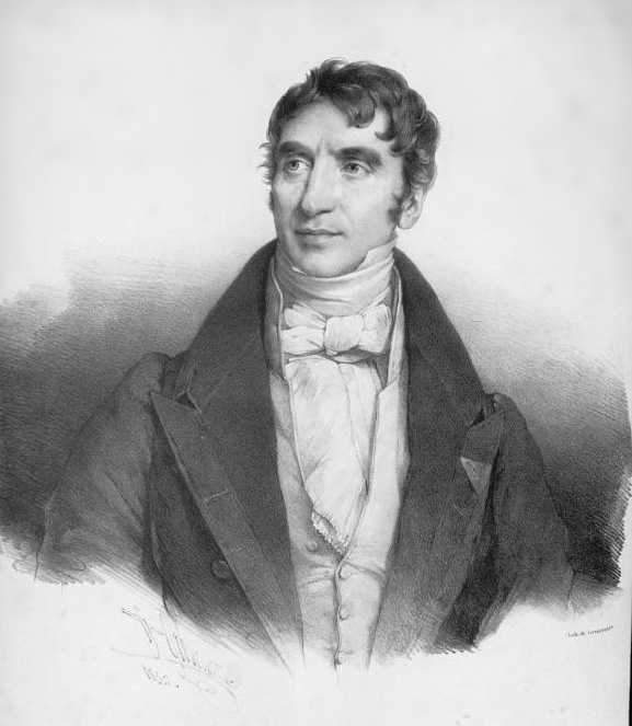 Pierre Zimmerman (1785—1853), a French pianist, composer, and music teacher.